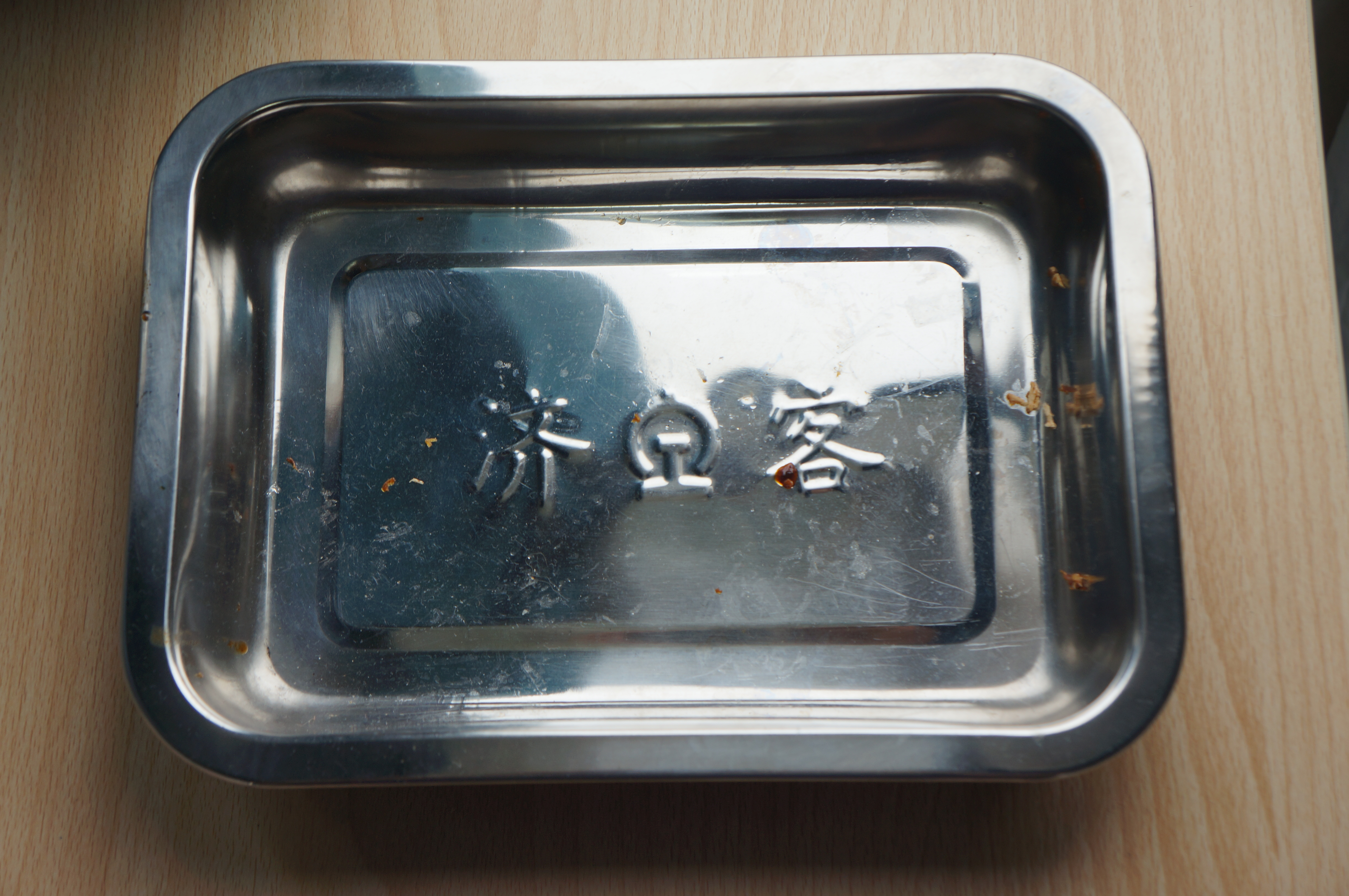 201610 Metal Plates of Jinan Passenger Service Department